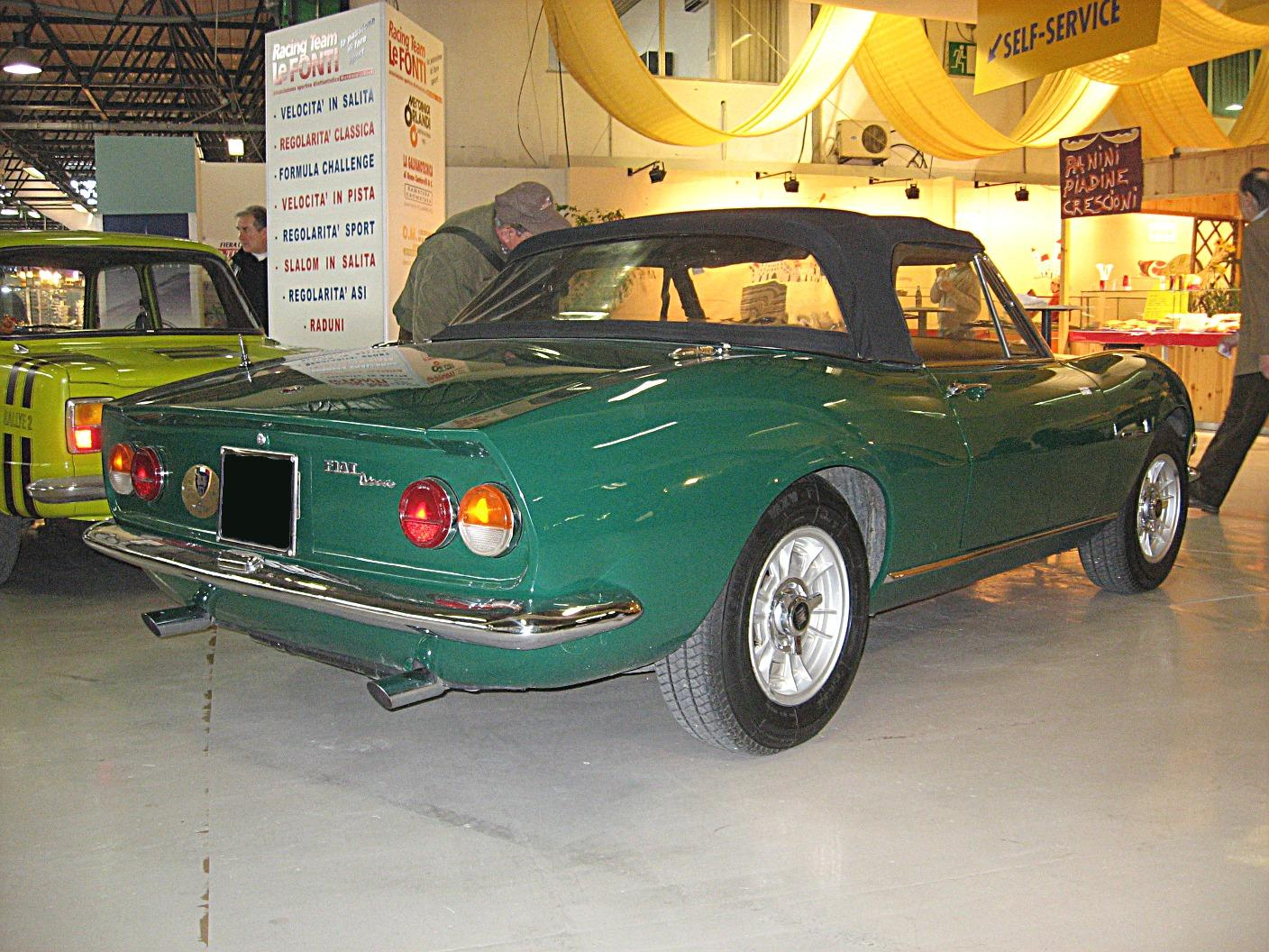 Subject:Fiat Dino Spider 2000 1ª serie del 1968 Author:Luc106 Date:March 15th, 2007 Event:Old Timer Show 2008 Place/Country: Forlì, Italy I release all rights in the public domain.